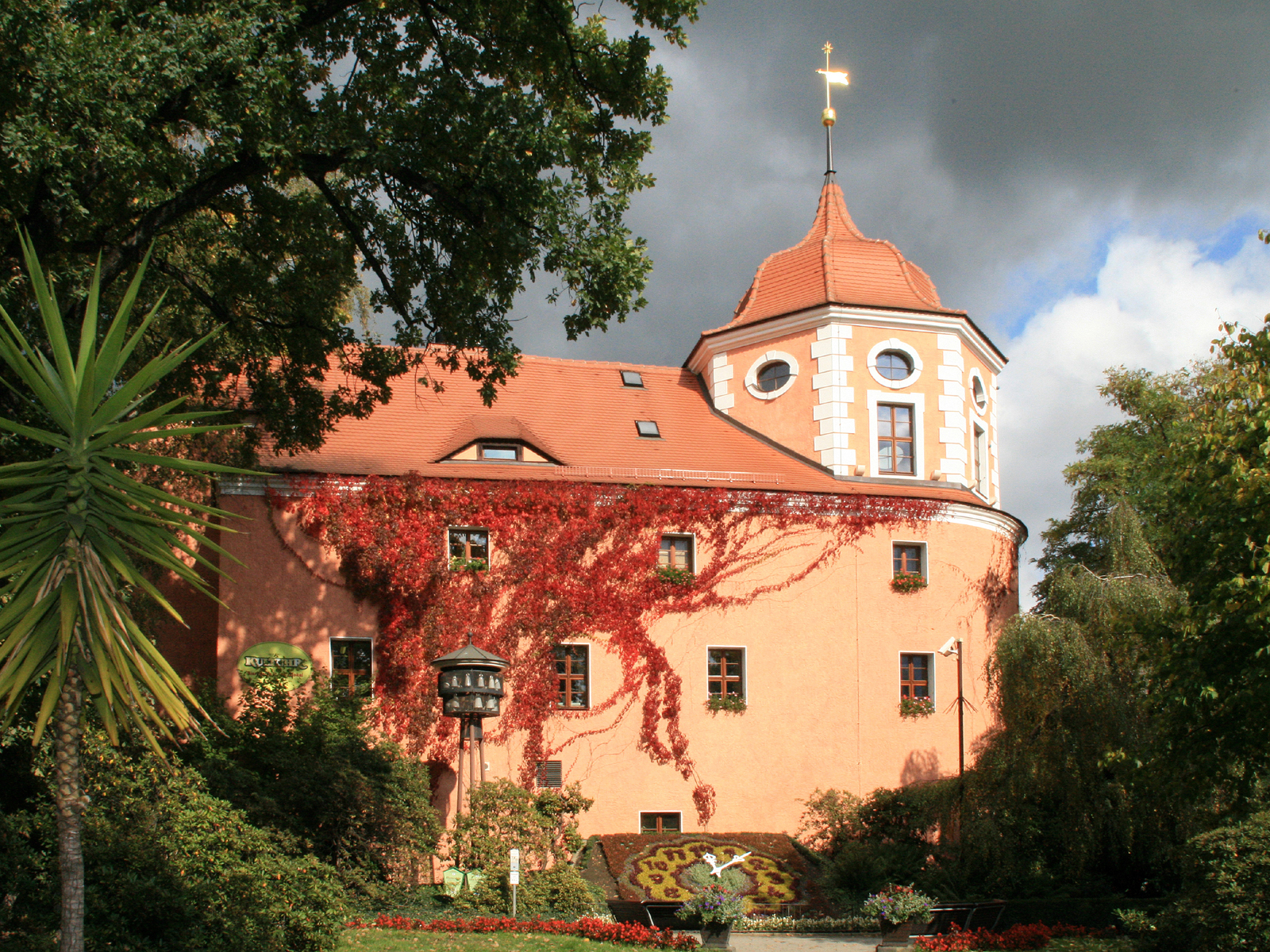 Zittau, butcher's bastion with carillon and flower clock